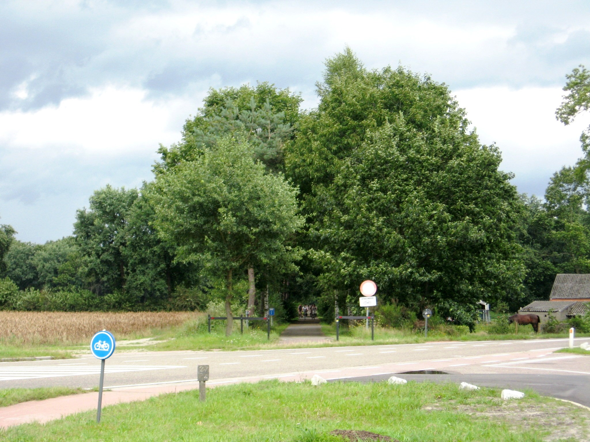 Railroad 18 in Eksel, Hechtel-Eksel, Limburg, Belgium